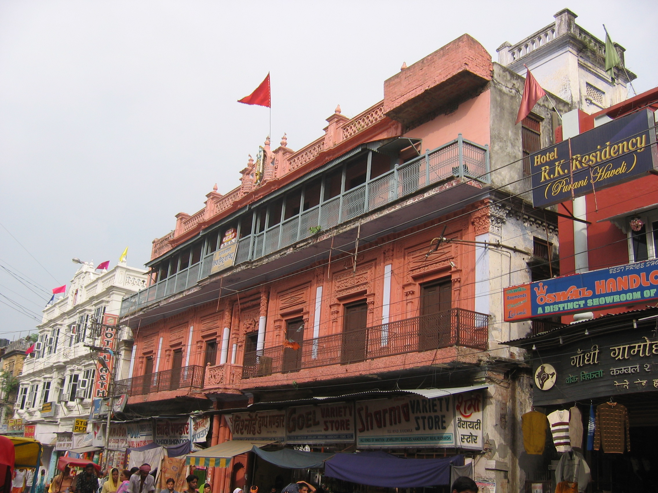 An striking old building at Upper Road, Haridwar, also local office of Vishva Hindu Parishad